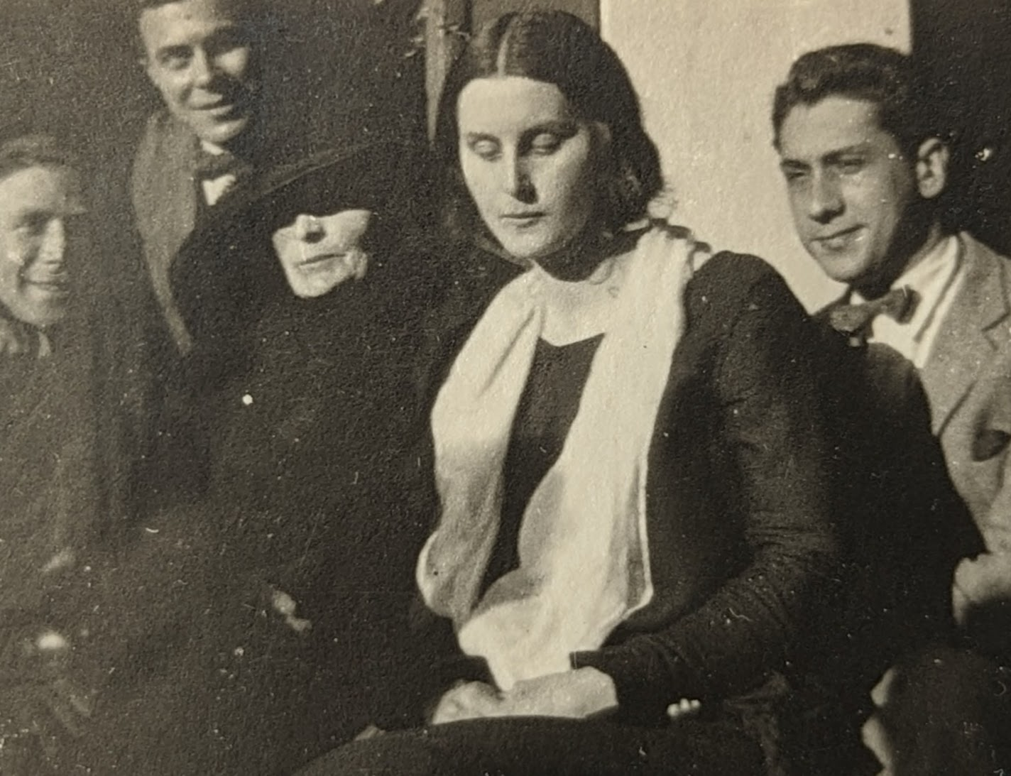 (Google translate:) The artist, photographed in Palermo approx. 1930, with her mother to the left and husband to the right